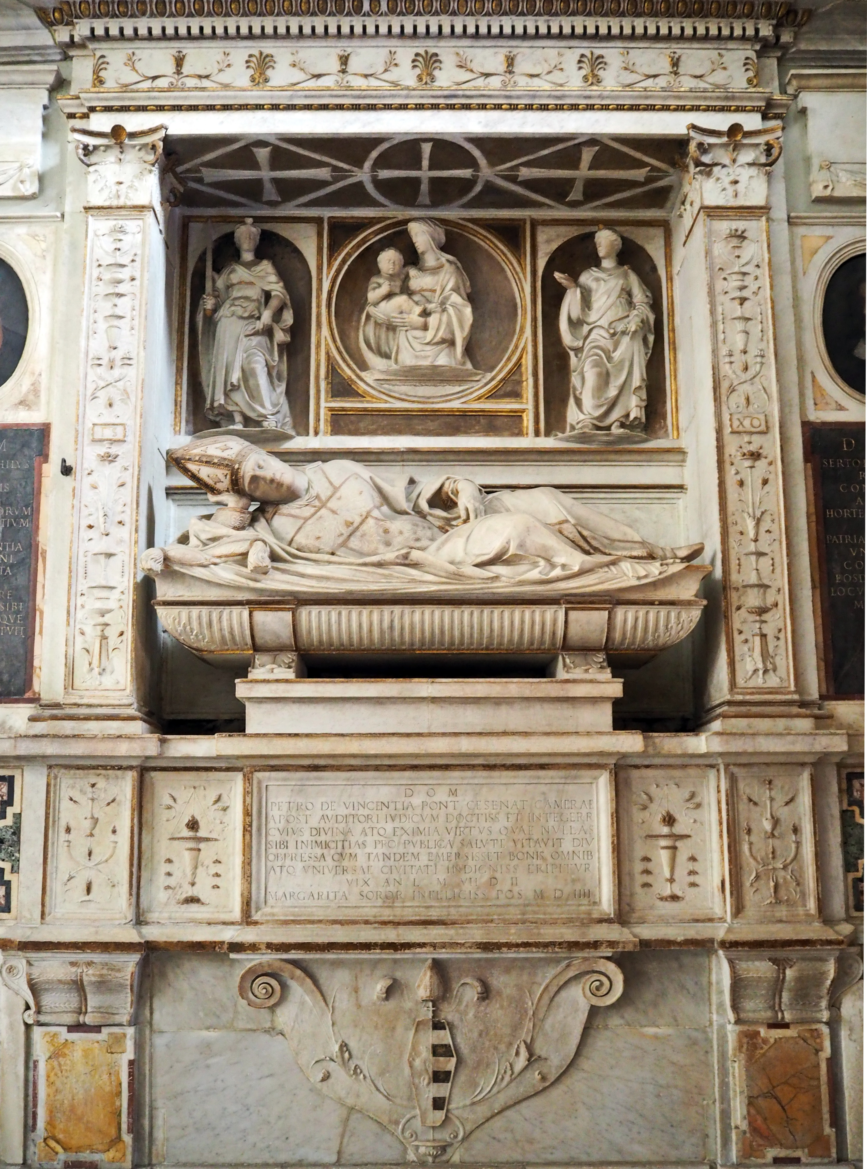 Santa Maria in Aracoeli (Rome); Tomb of Pietro Manzi